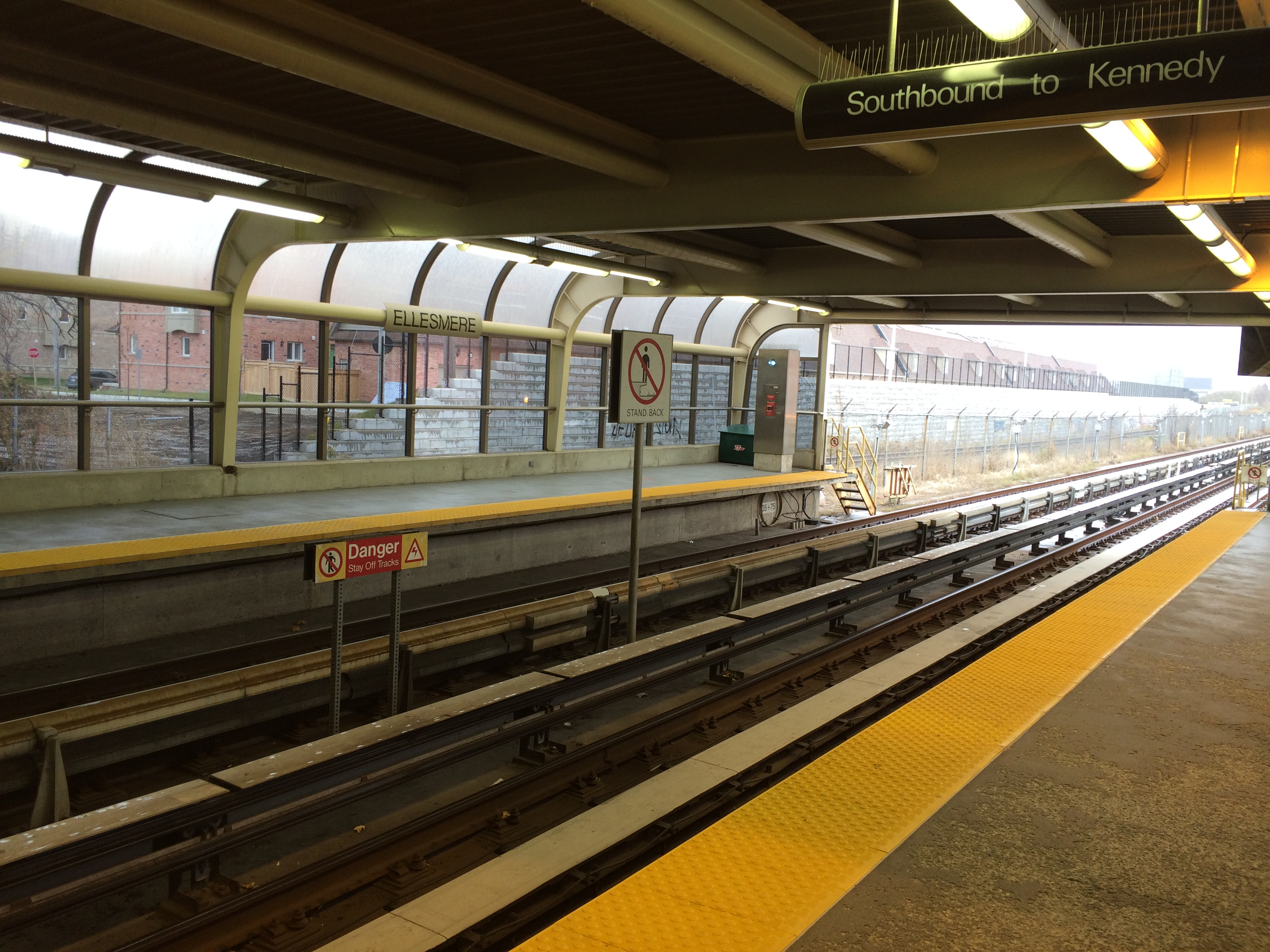 Ellesmere TTC station, southbound platform.